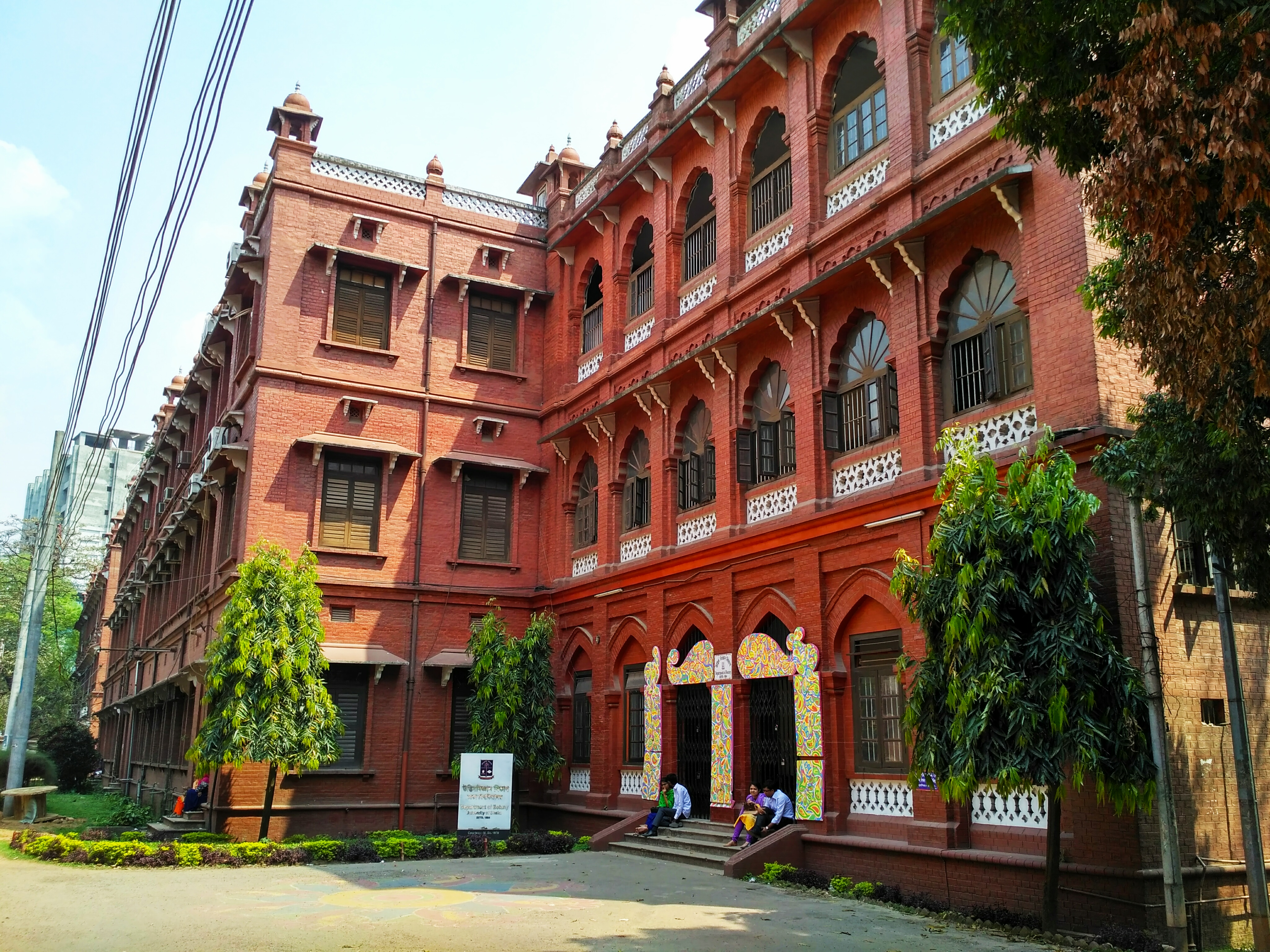 View of the building of the Department of Botany, University of Dhaka, Curzon Hall area, Dhaka. (29.03.2019)